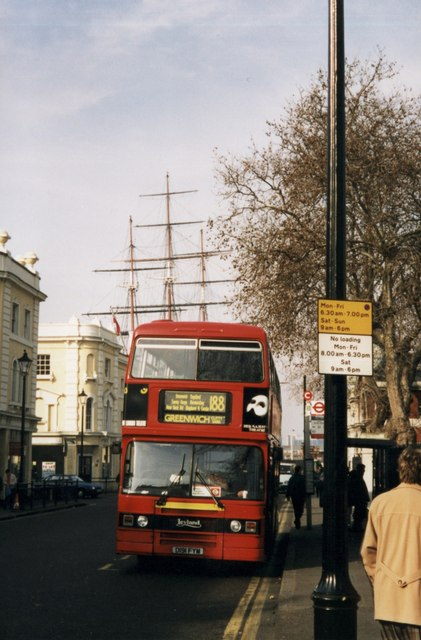 Cowie Group (South London Transport Ltd) bus L194 (reg. D194 FYM), a 1986 Leyland Olympian/ECW, in Greenwich, London, on route 188, with the first glimpse of the masts of the Cutty Sark above it.